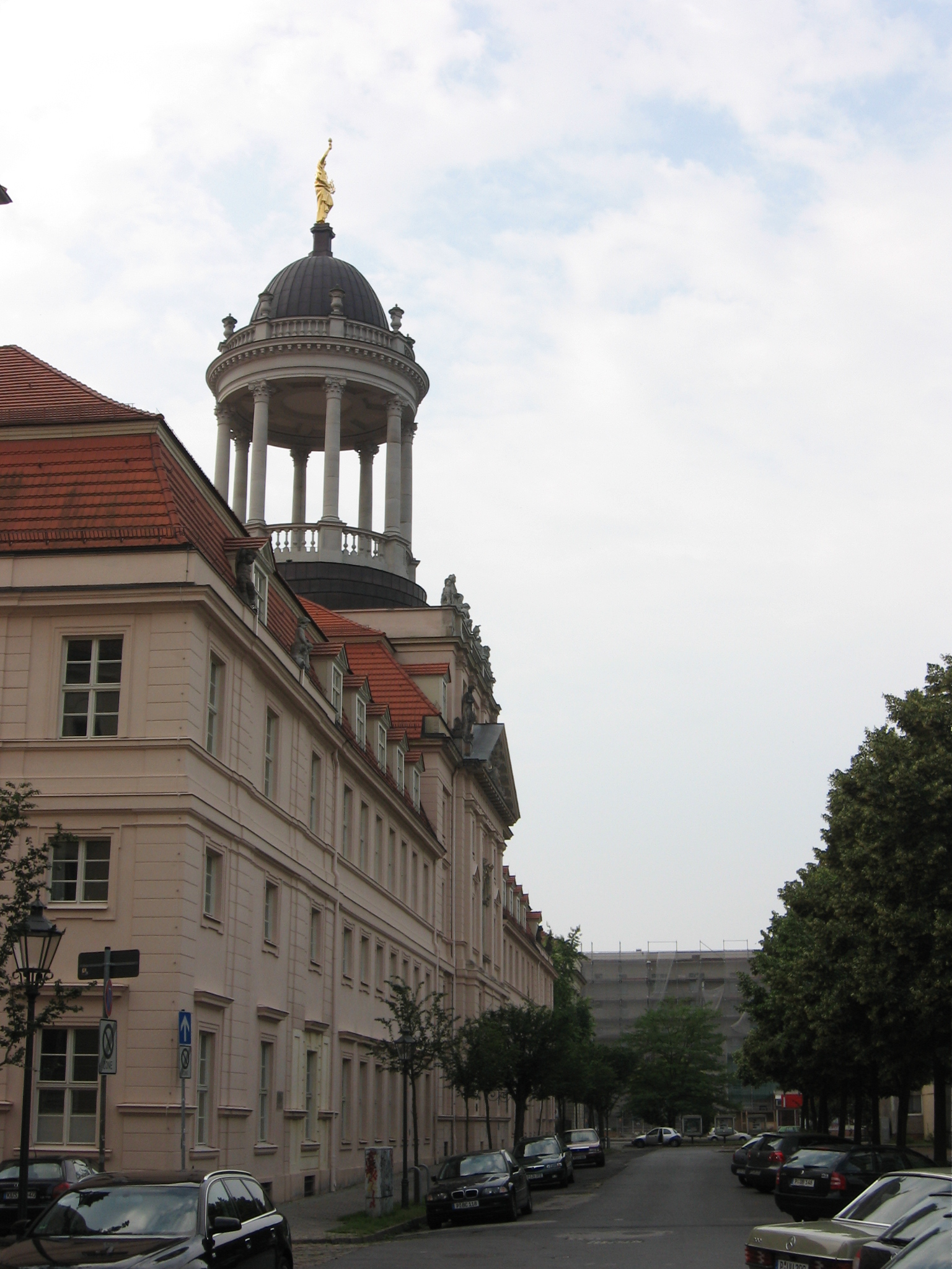 Großes Militärwaisenhaus